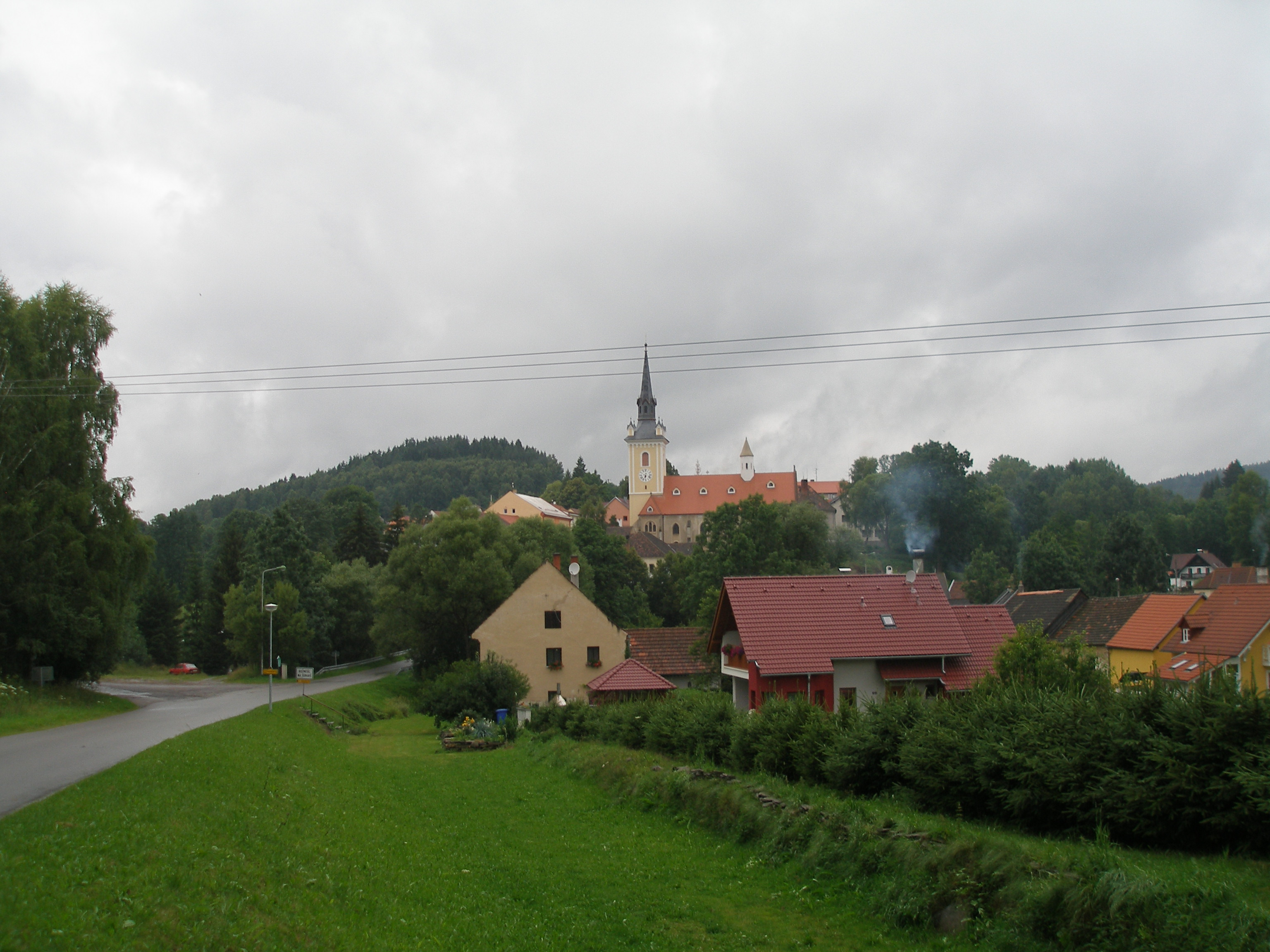 Southern view of Rožmitál na Šumavě